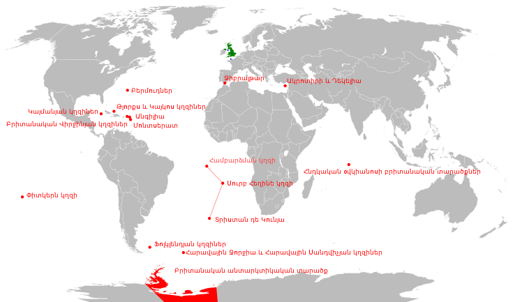 Great Britain Dependencies map in Armenian